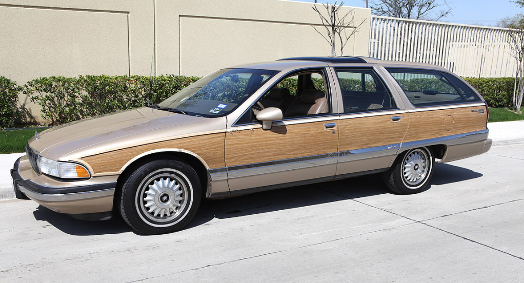 1993 Buick Roadmaster Estate Wagon